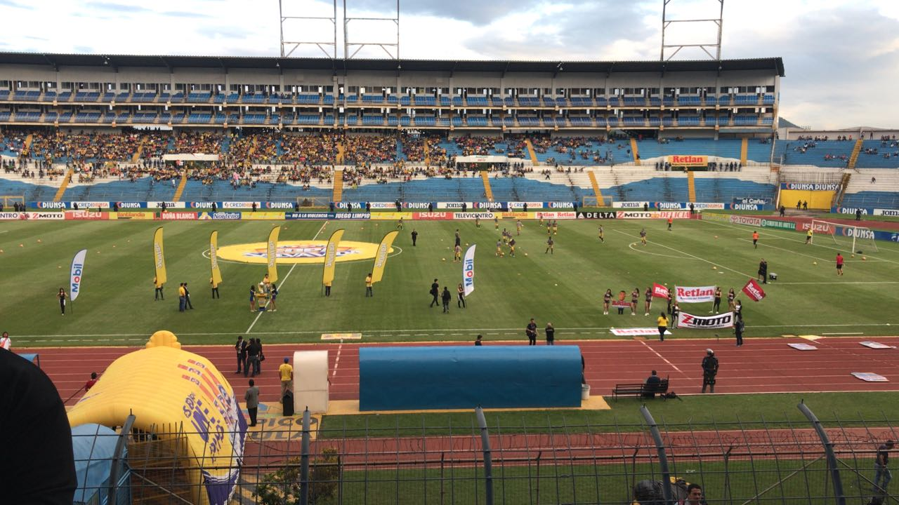 Olympic Stadium @ San Pedro Sula, Honduras. Final Game: Real Espana Vs Motagua